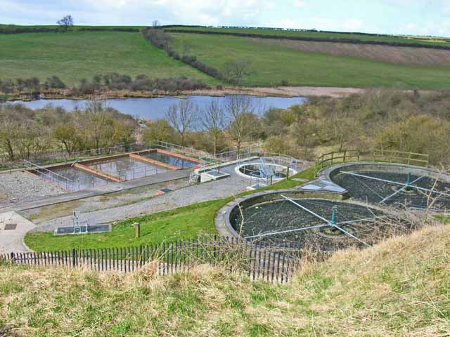 Cassop Sewage Farm (and National Nature Reserve!)